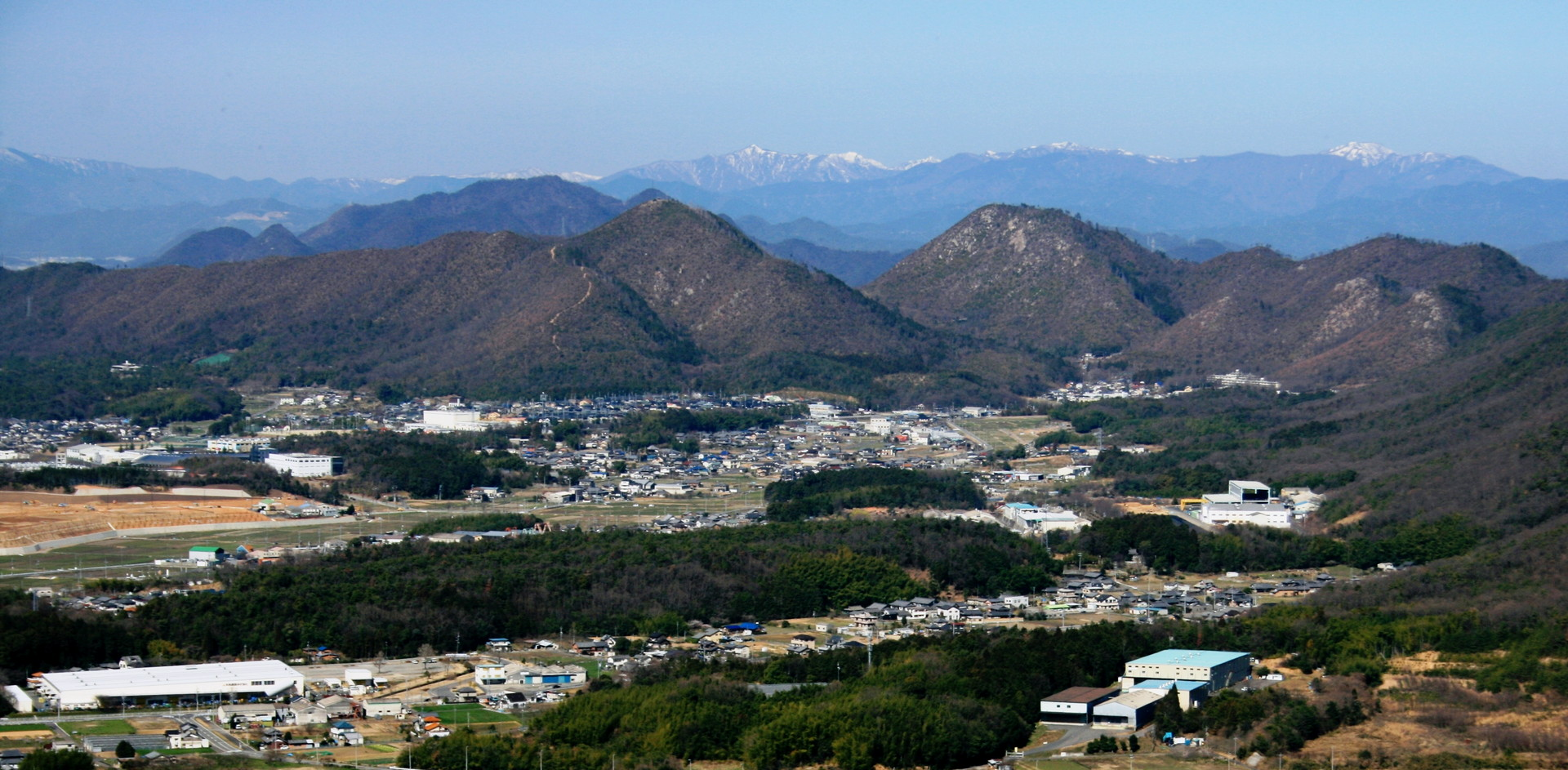 Mount Gongen from Mount Yagi in Kakamigahara, Gifu Prefecture, Japan.